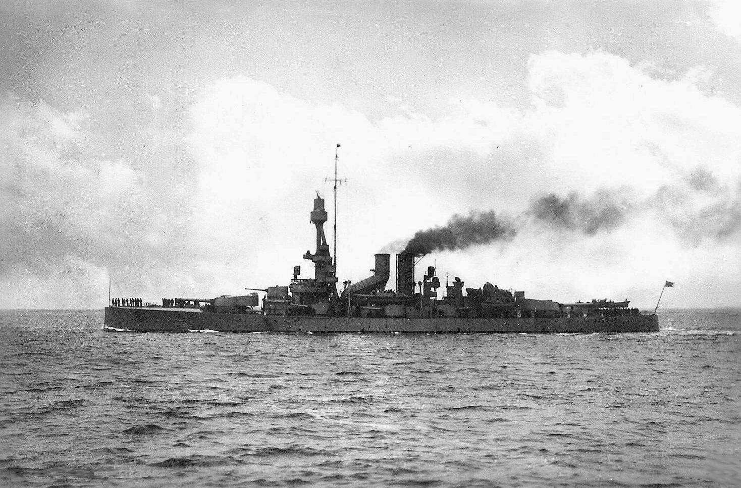 Swedish coastal defence ship HMS Sverige. The forward funnel was bent aftwards in 1931 so the picture must have been taken after that year.